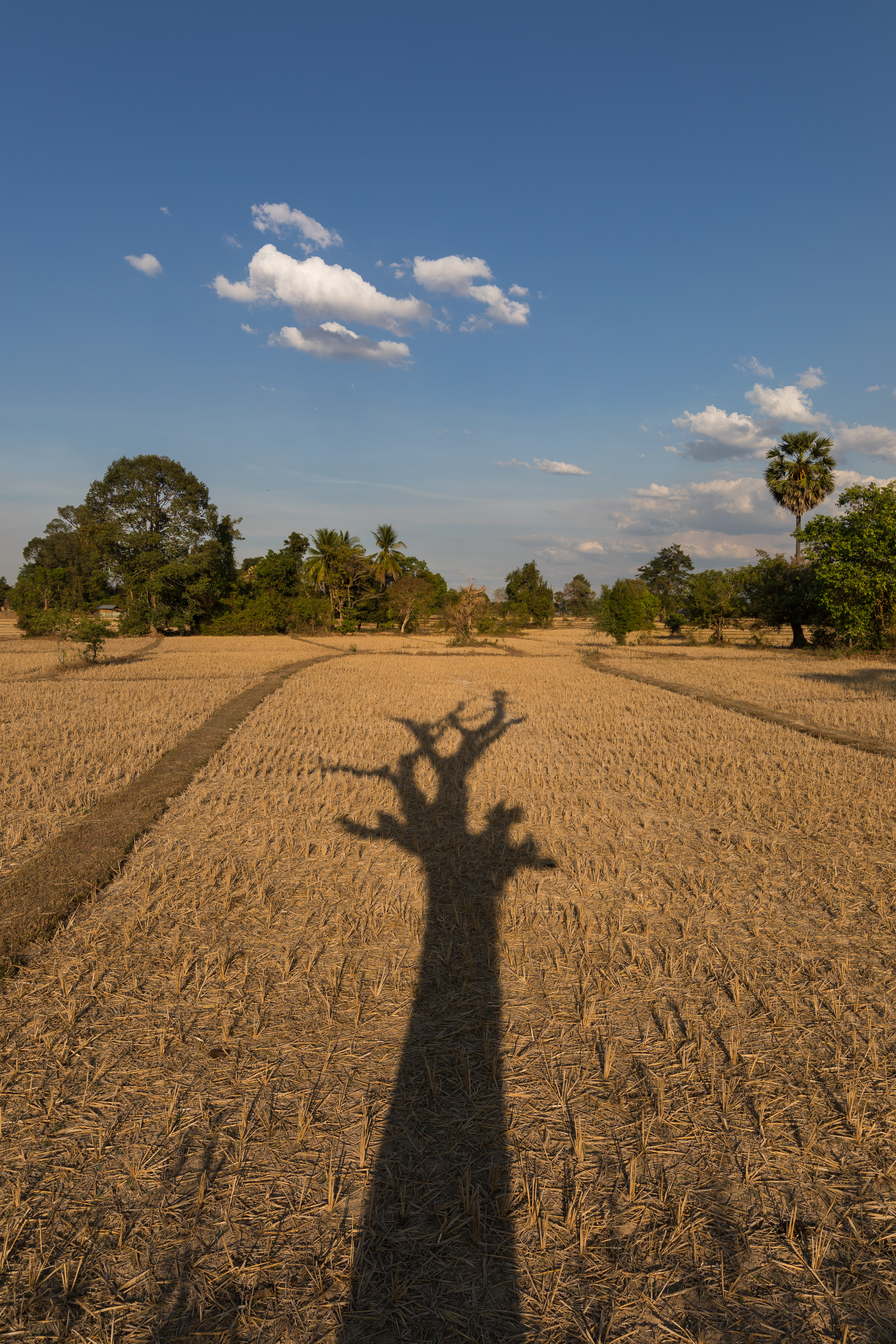 Long shadow of a dead tree with its branches on the dry fields of Don Det (Si Phan Don, Laos), a sunny day with blue sky and white clouds, late afternoon